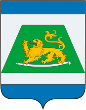 Seversky rayon (Krasnodar krai), coat of arms